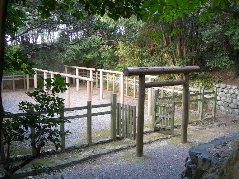 Awabi-choseisho is the facility for preparing the sacred abalone for Ise Shrine at Kuzaki-cho, Toba city, Mie prefecture Japan. .